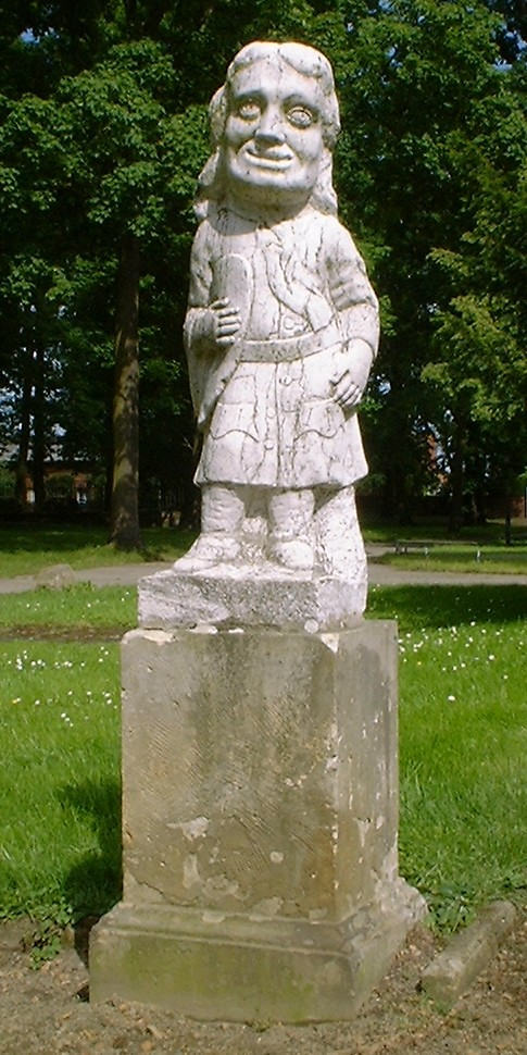 One of the statues nearby the Palace in Wiepersdorf (municipality Niederer Fläming) in Brandenburg, Germany